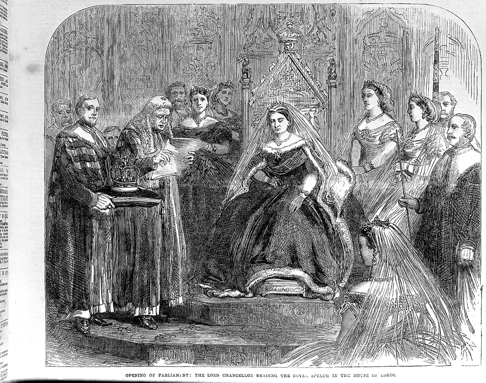 Queen Victoria at the opening of Parliament, 1866. The Lord Chancellor reading the Royal Speech in the House of Lords. The Queen makes reference to the cattle plague and the orders which have been made to prevent the spread of the disease. General Collections Keywords: cattle plague; parliament